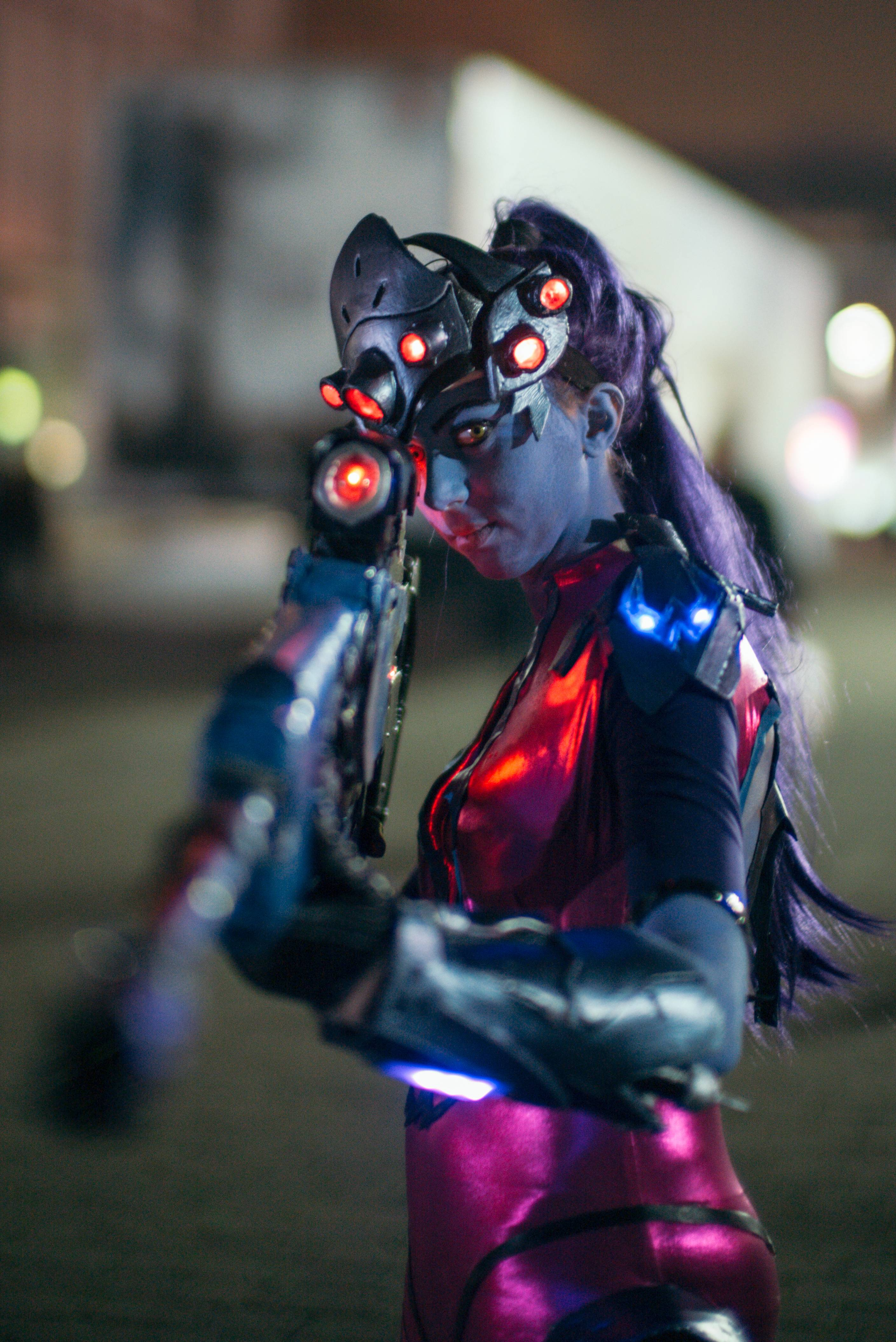 Widowmaker Cosplay, at London MCM, 2016